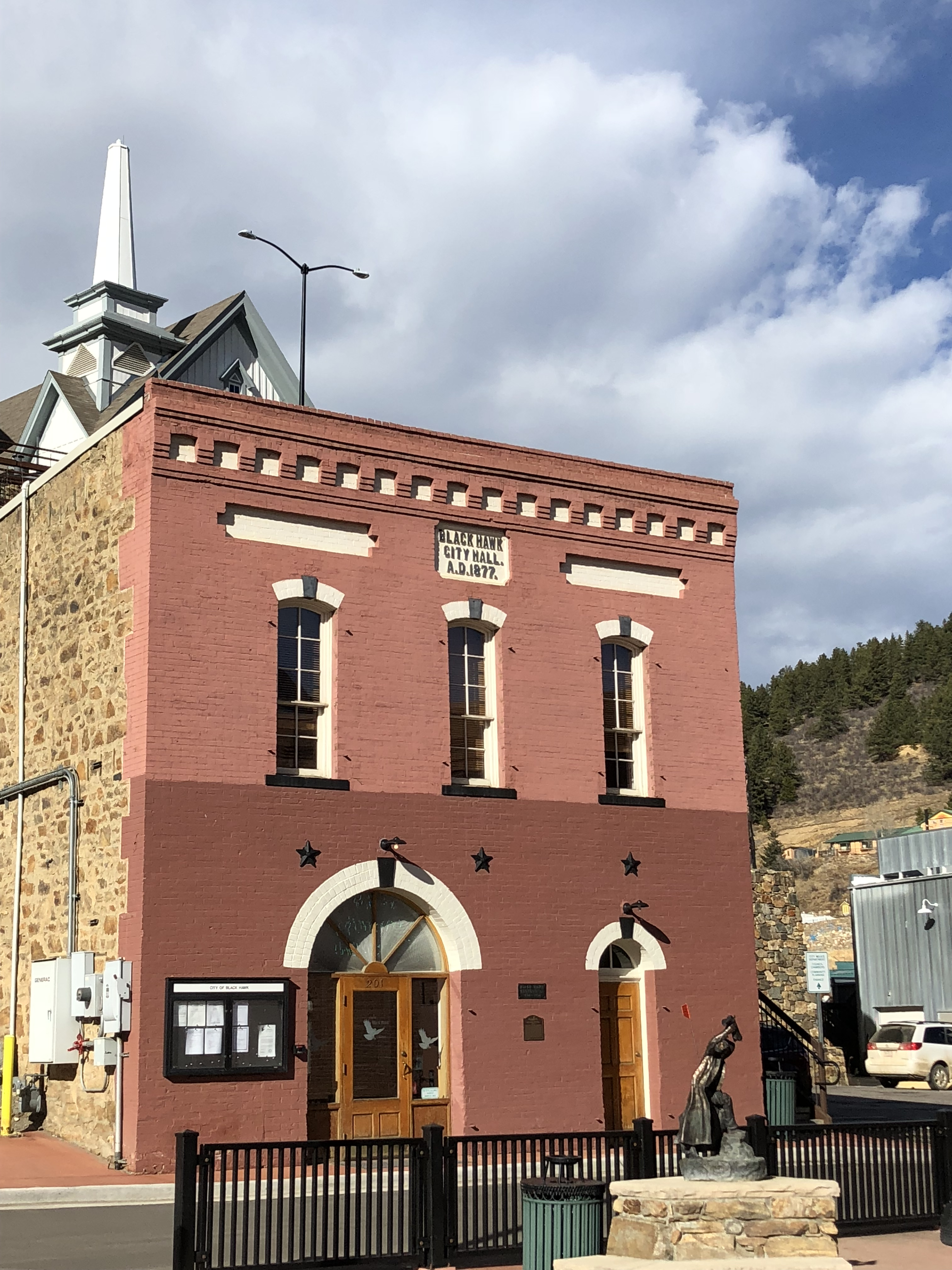 City hall of Black Hawk, Colorado